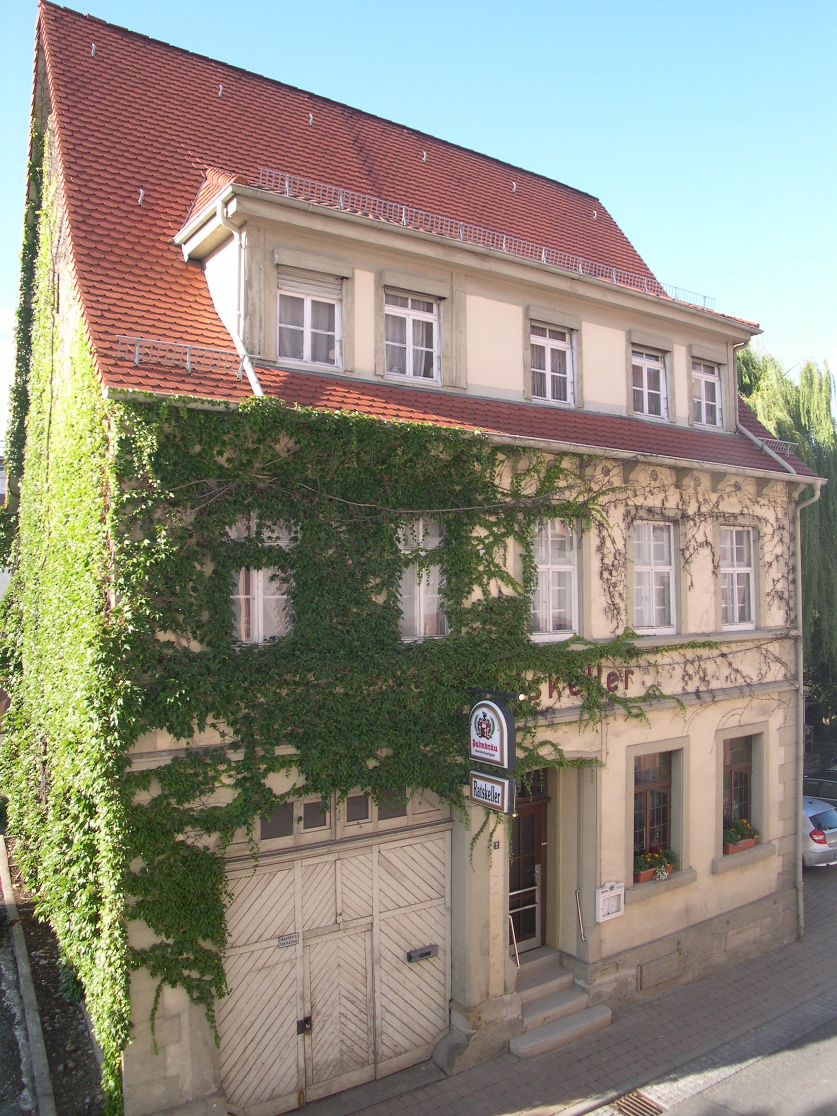 birthplace of Selma Rosenfeld Ratskeller, Eppingen, Germany